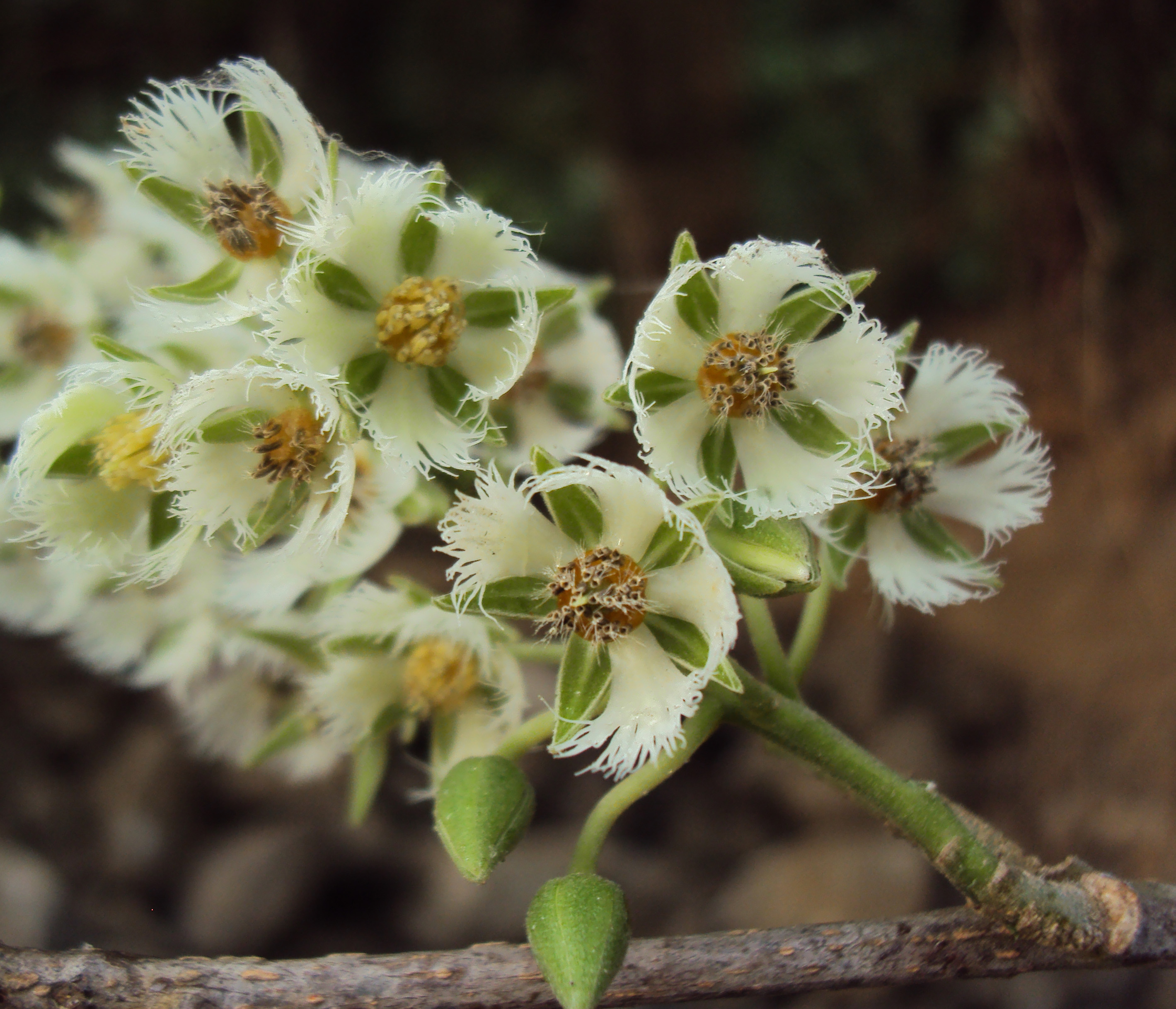 Elaeocarpus serratus